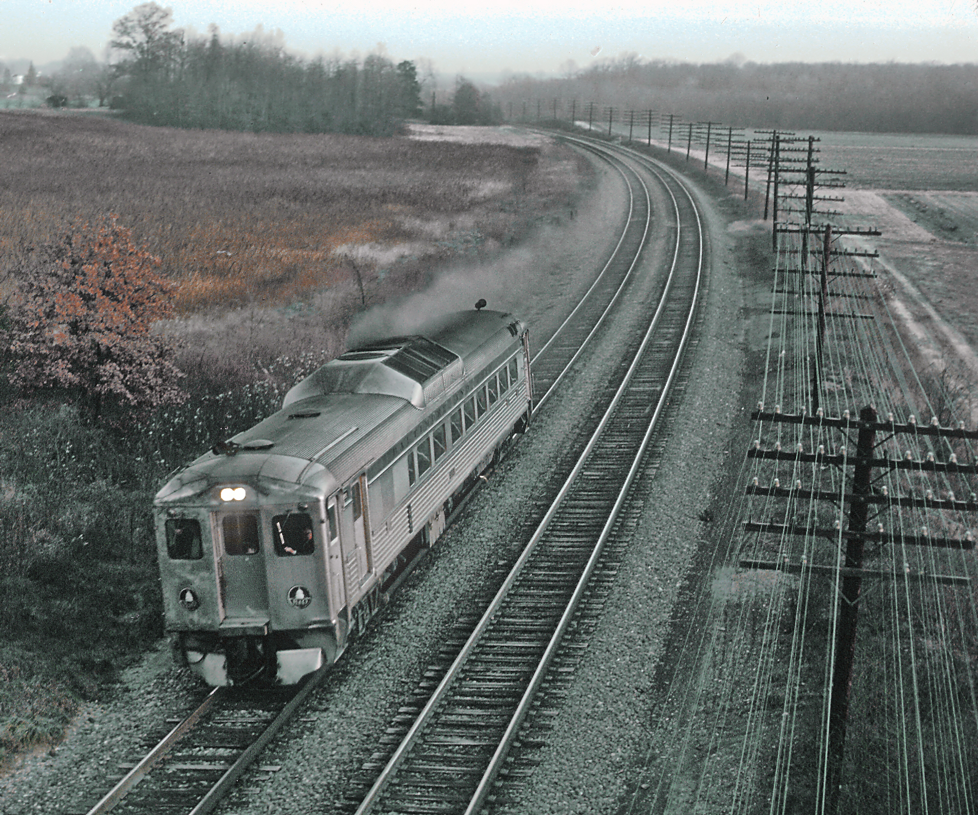 B&O train 161 - predecessor to the modern Camden Line - near Greenbelt, MD in December 1970